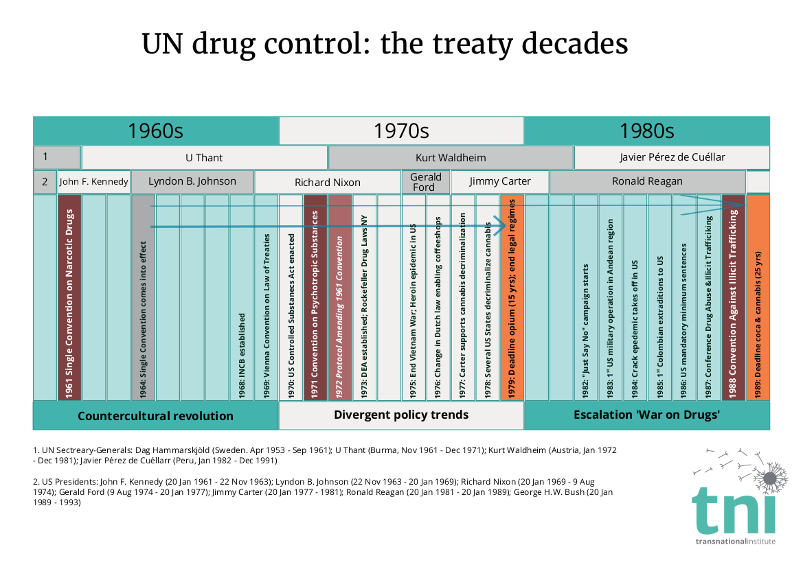 A timeline depicting the three decades in which the UN Drug Control Treaties were designed and established